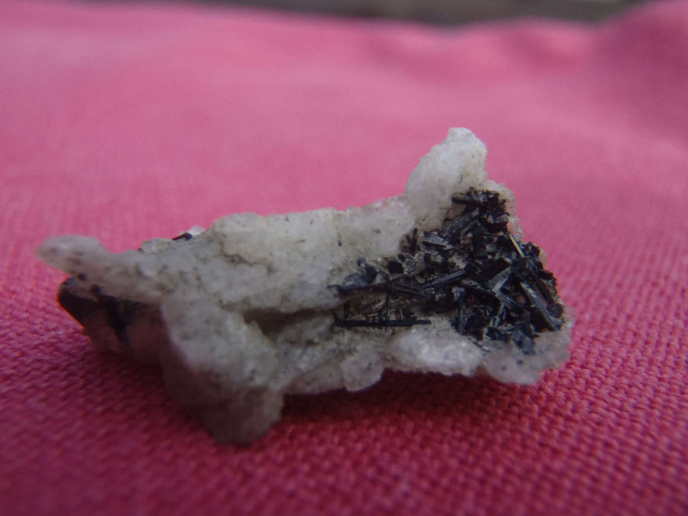 Fluor-schorl Locality: Tennvatn pegmatite, Sørfold, Nordland, Norway Dimensions: 23 mm x 11 mm x 10 mm. Largest Crystal Size: 5 mm Description: One of the new members of the expanding tourmalinegroup. From rare-mineral dealer J.Hyrsl. Photo and collection Erik Vercammen